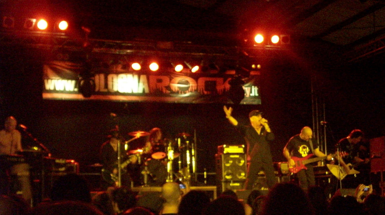 Demon live at British Steel fest in Bologna, Italy on November 07, 2010